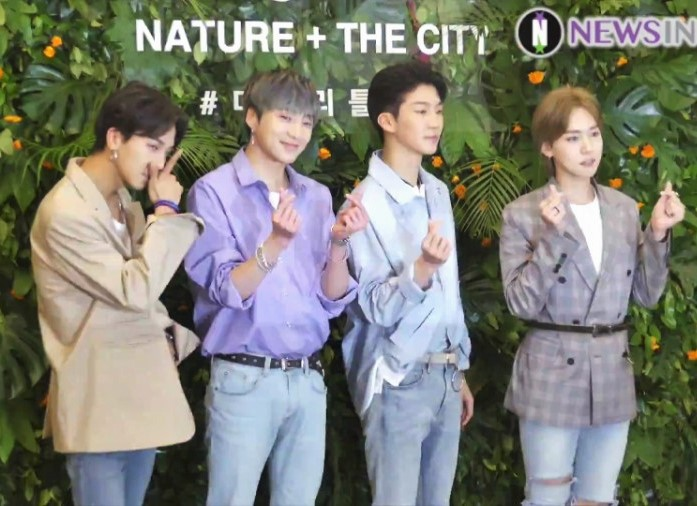 180515 Winner Attending Kiehl's Nature + The City Event in Gangnam